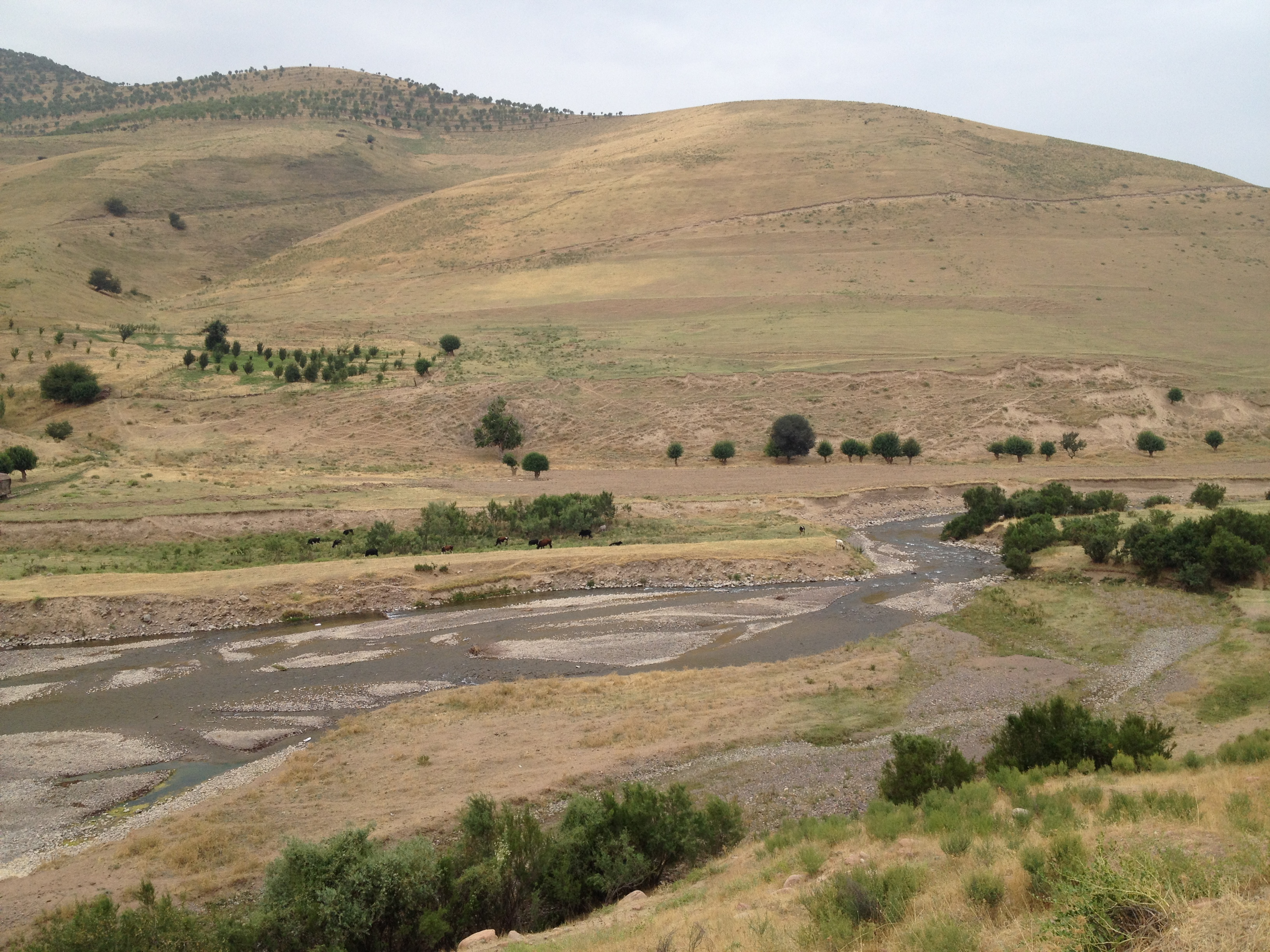 Valley of Nishbash Say river in lower reaches